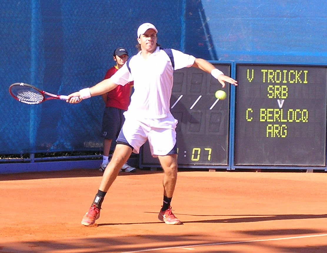 Carlos Berlocq in Umag, Croatia